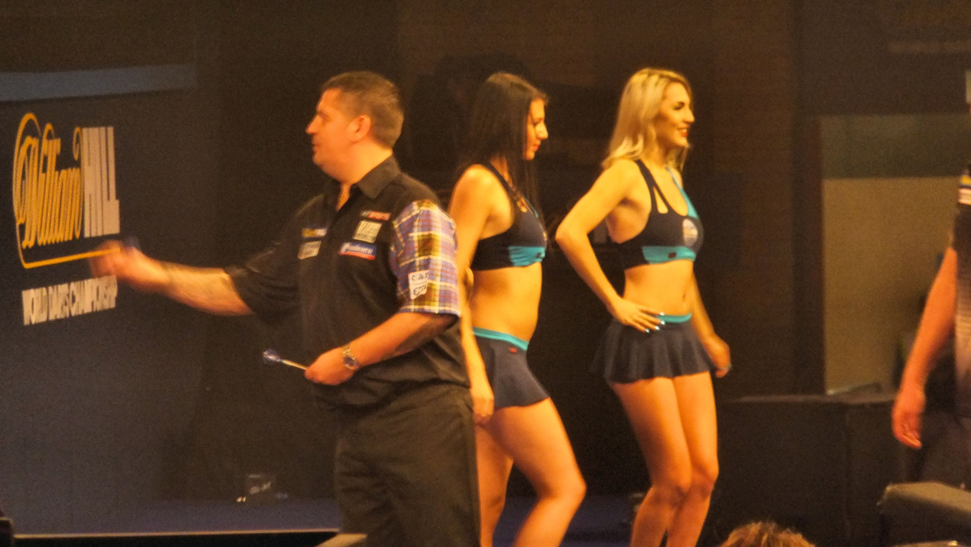 Gary Gary Anderson